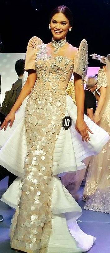 Pia Alonzo Wurtzbach image taken during the Binibining Pilipinas 2015 Fashion Show in Smart Araneta Coliseum